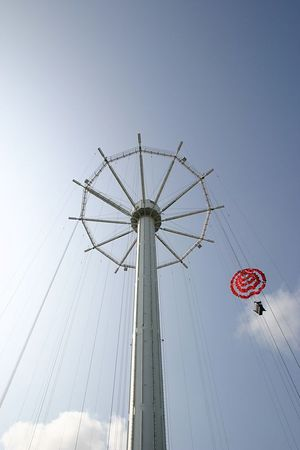 The Great Gasp in operation -- August 11, 2005.